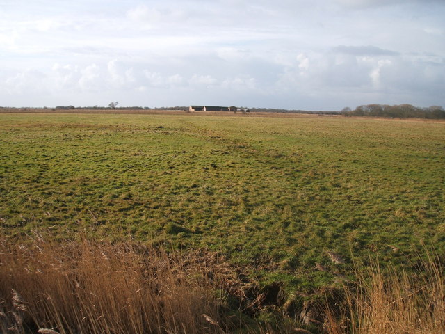 Heigham Holmes (National Trust) A view to the old barns in the centre of Heigham Holmes, an important nature reserve in the north-eastern Broads.